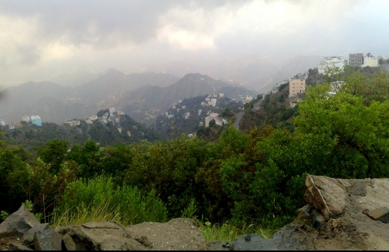 nature of my town in SA